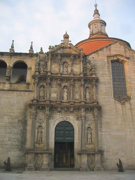 Gothic Church of S. Gonçalo de Amarante